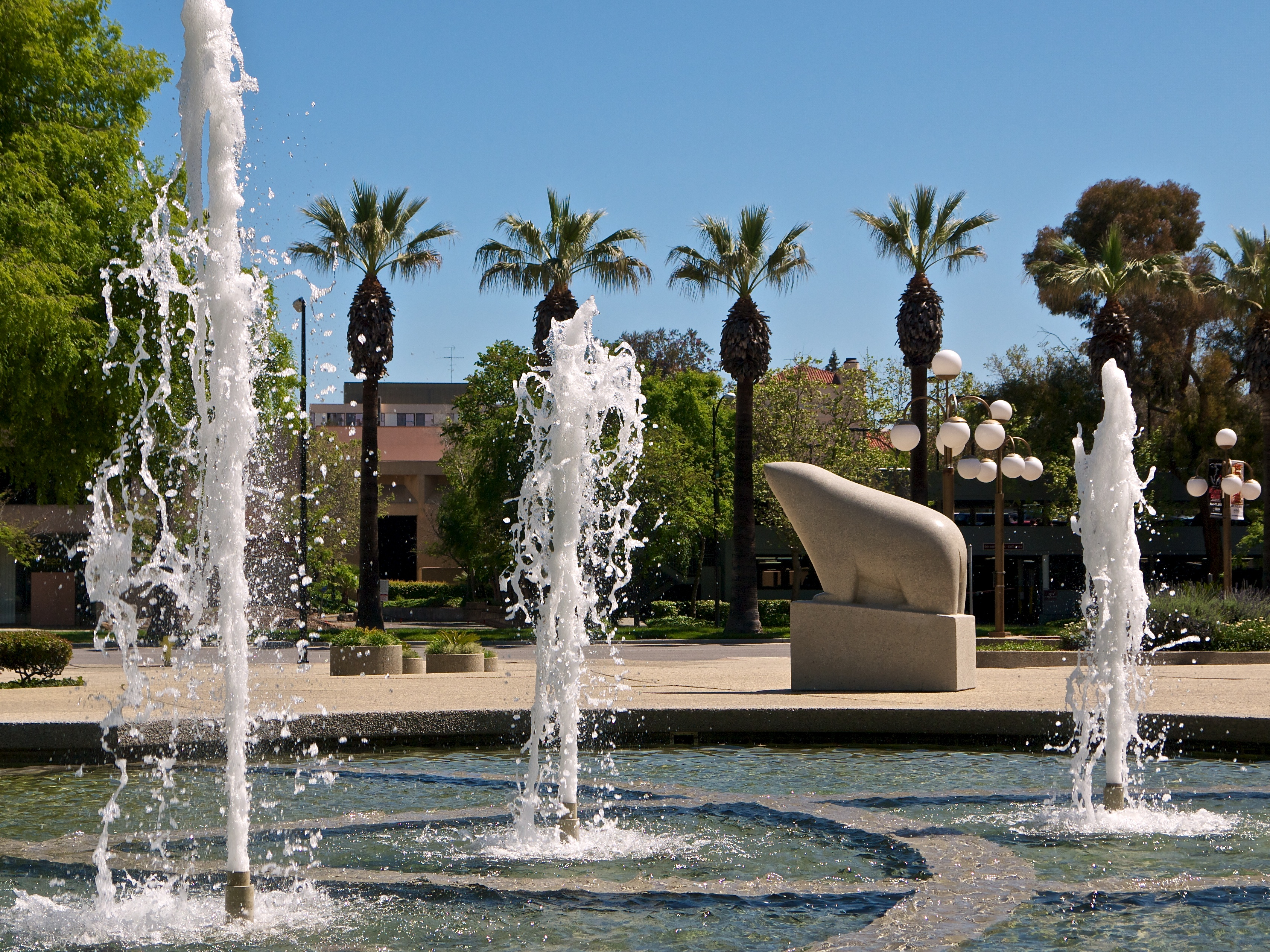 Fountain Outside San Jose Performing Arts Center